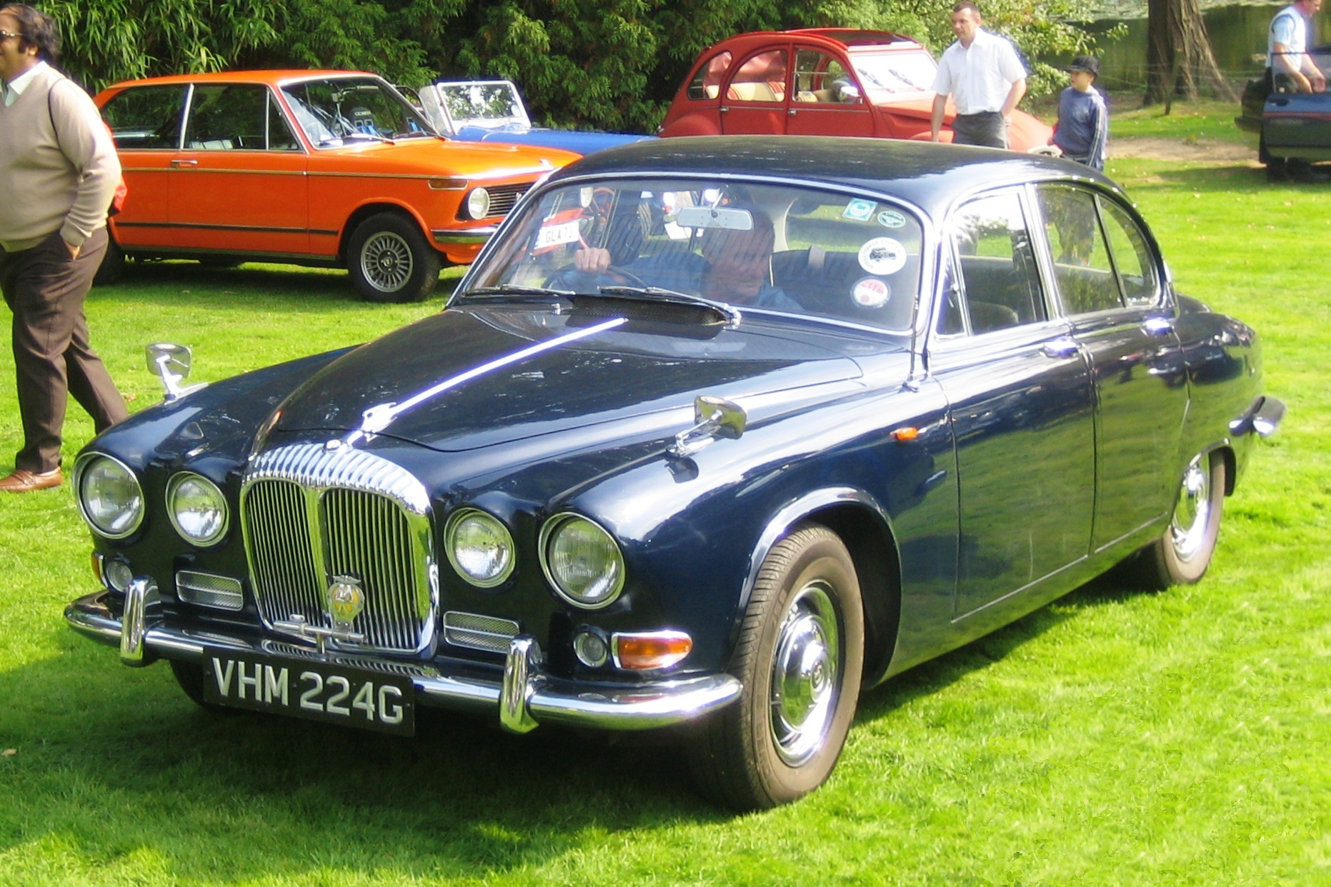 Daimler Sovereign 4.2. The first Jaguar bodied Daimlers retained Daimler engines, but the Daimler Sovereign of 1966 - 69 used the Jaguar 4.2 litre straight six engine.(DVLA) 4235cc first registered 2 May 1969